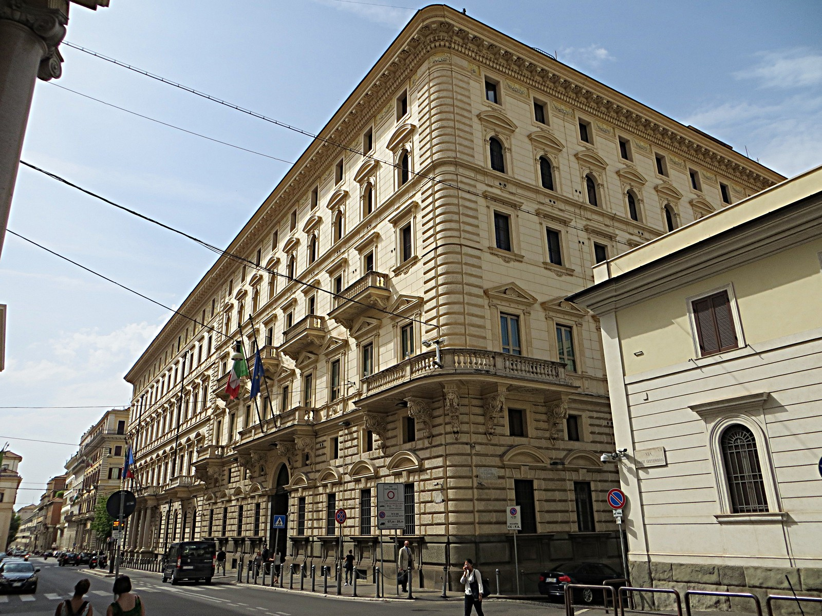 Palazzo Caprera (foreground, Ministry of Defence, Defence Staff HQ) & Palazzo Baracchini (background, Office of the Minister of Defence), further on the Embassy of India